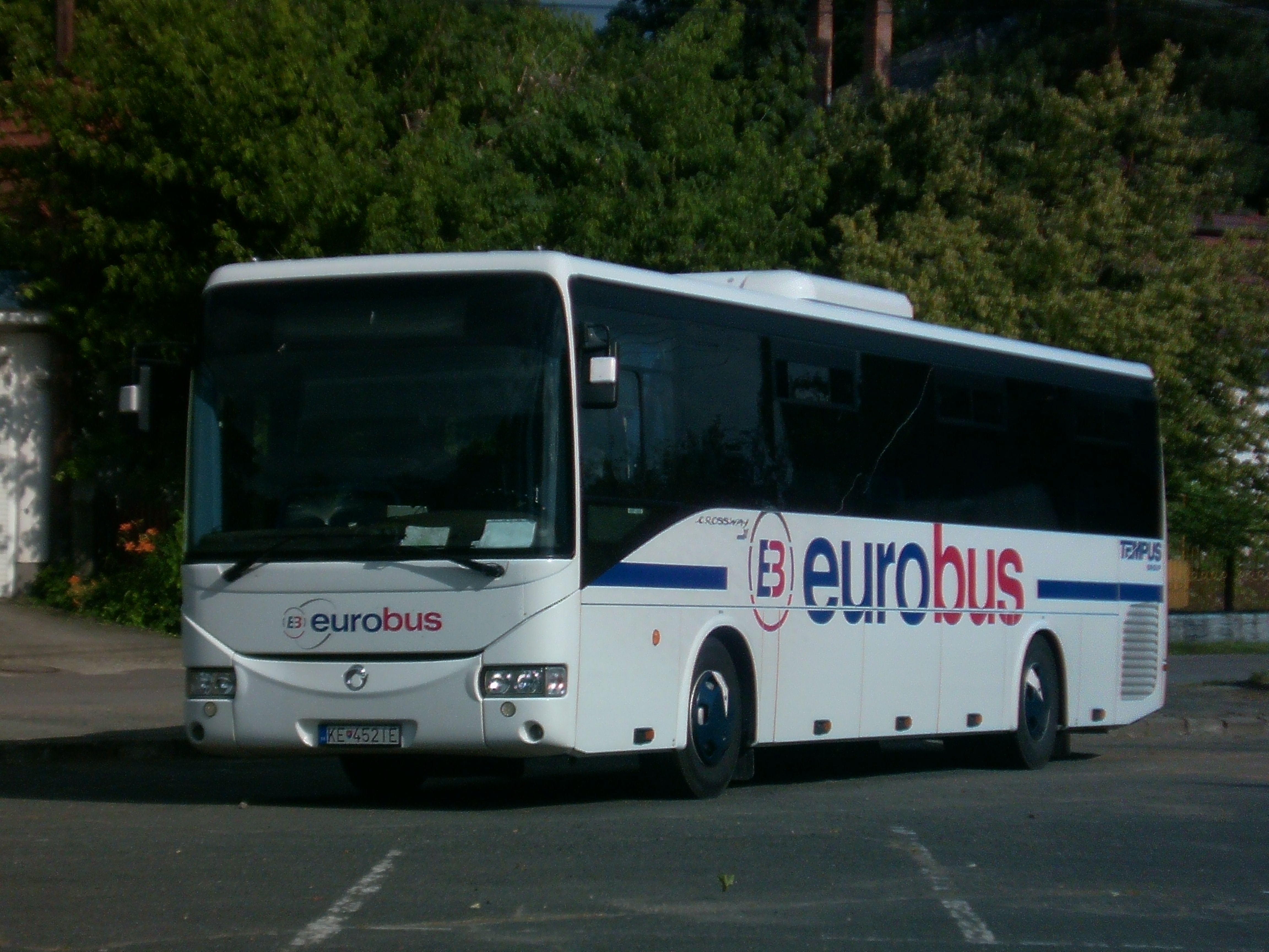 Bus of Eurobus in Bükkszék